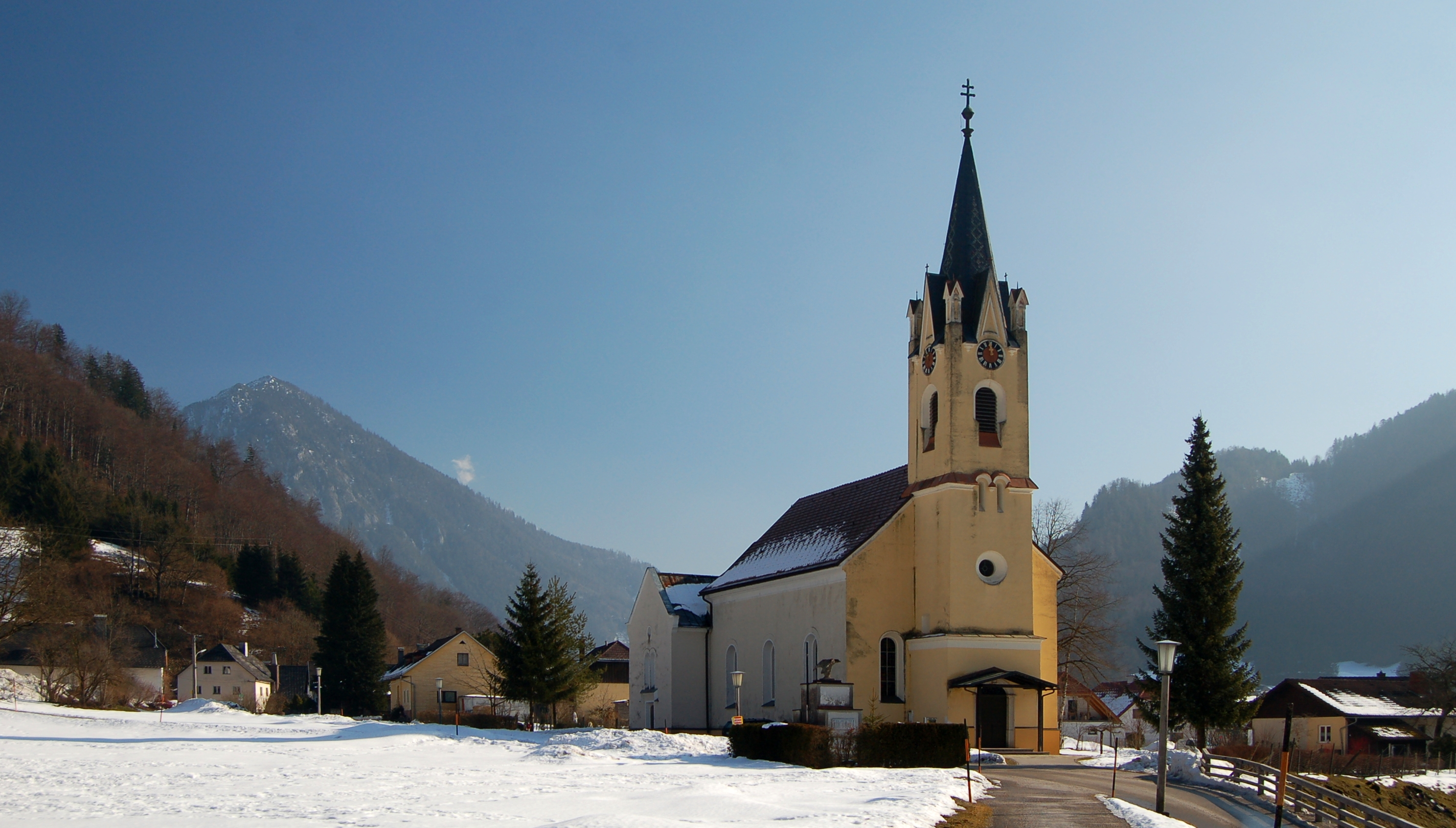 The parish church Immaculate Conception in Steyrling, municipality of Klaus an der Pyhrnbahn, Upper Austria, is protected as a cultural heritage monument.